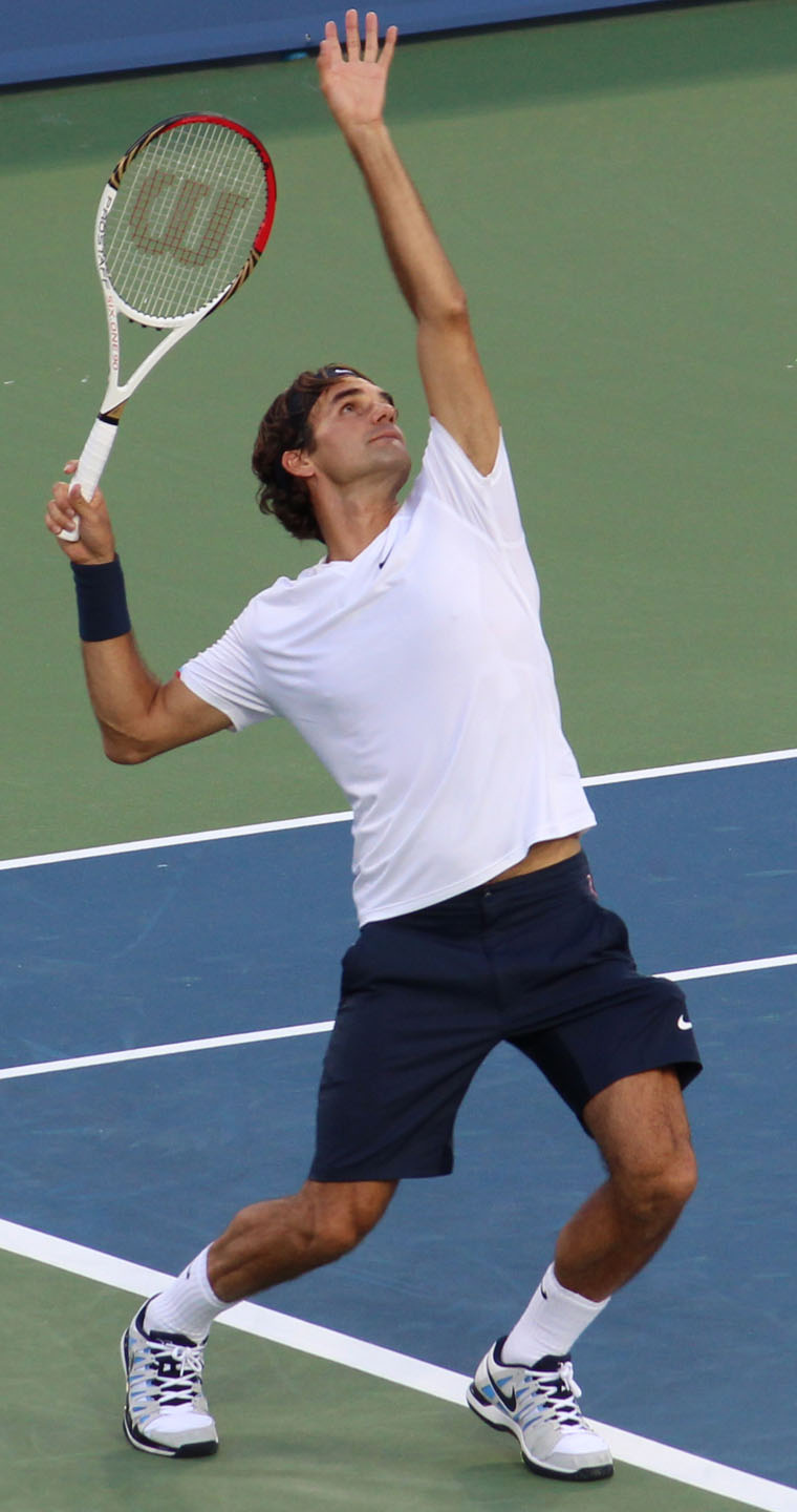 Federer at the Western and Southern Open